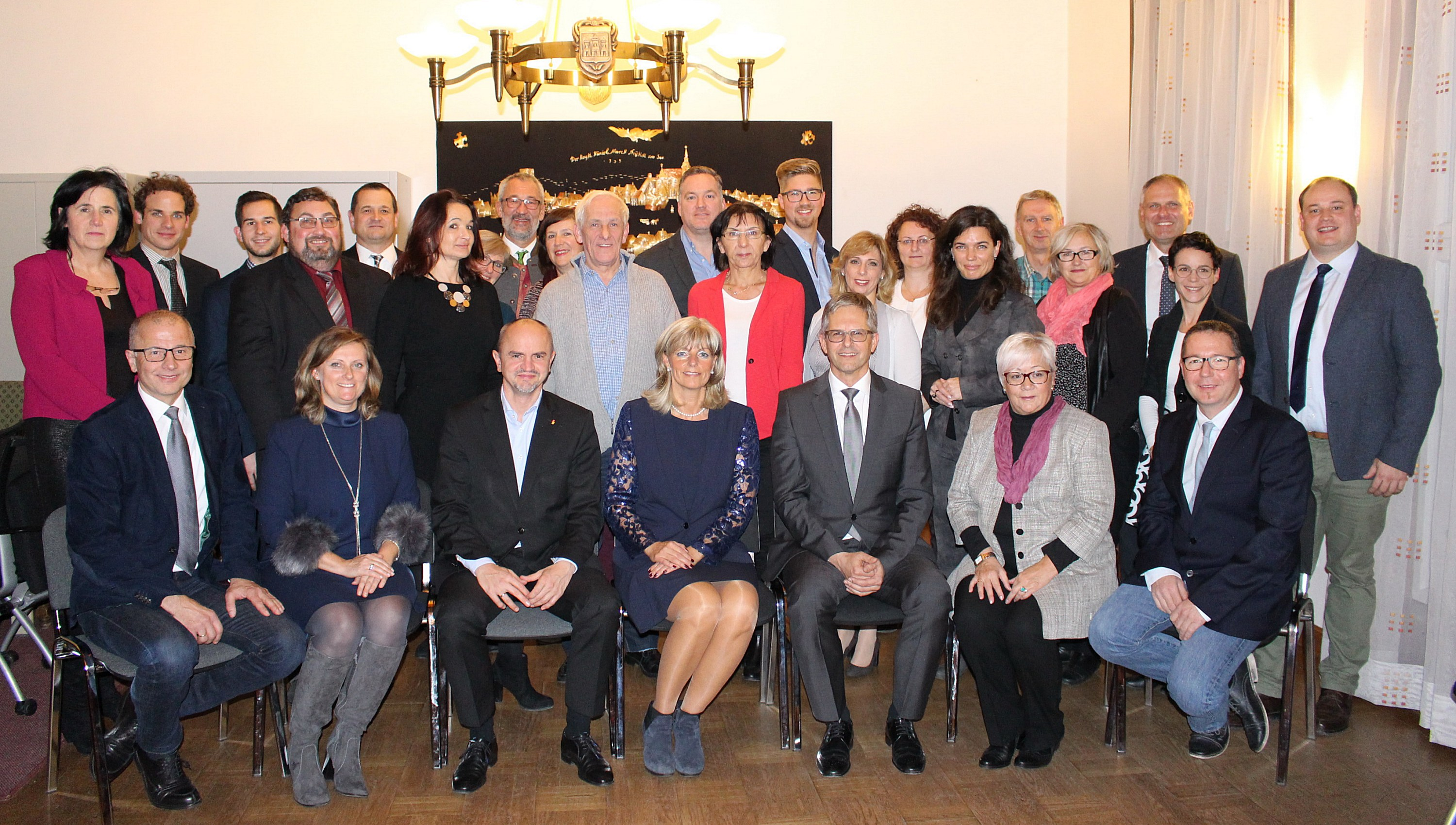 Parish council of Neusiedl am See after the municipal council and mayoral election 2017. In the middle, the new mayor Elisabeth Böhm.